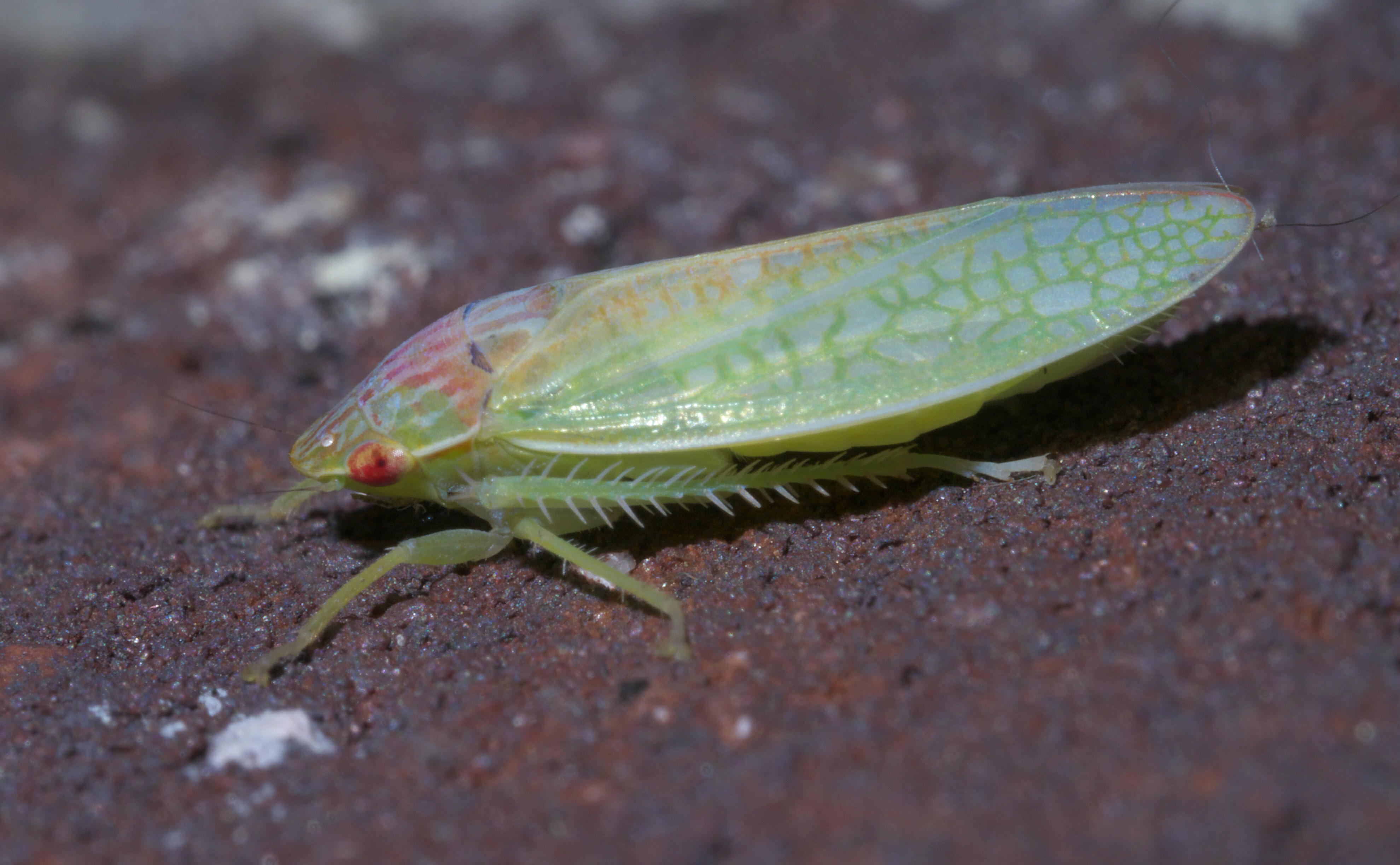 Gyponana octolineata, Family: Leafhoppers, Size: about 10 mm, ID Confidence: 98